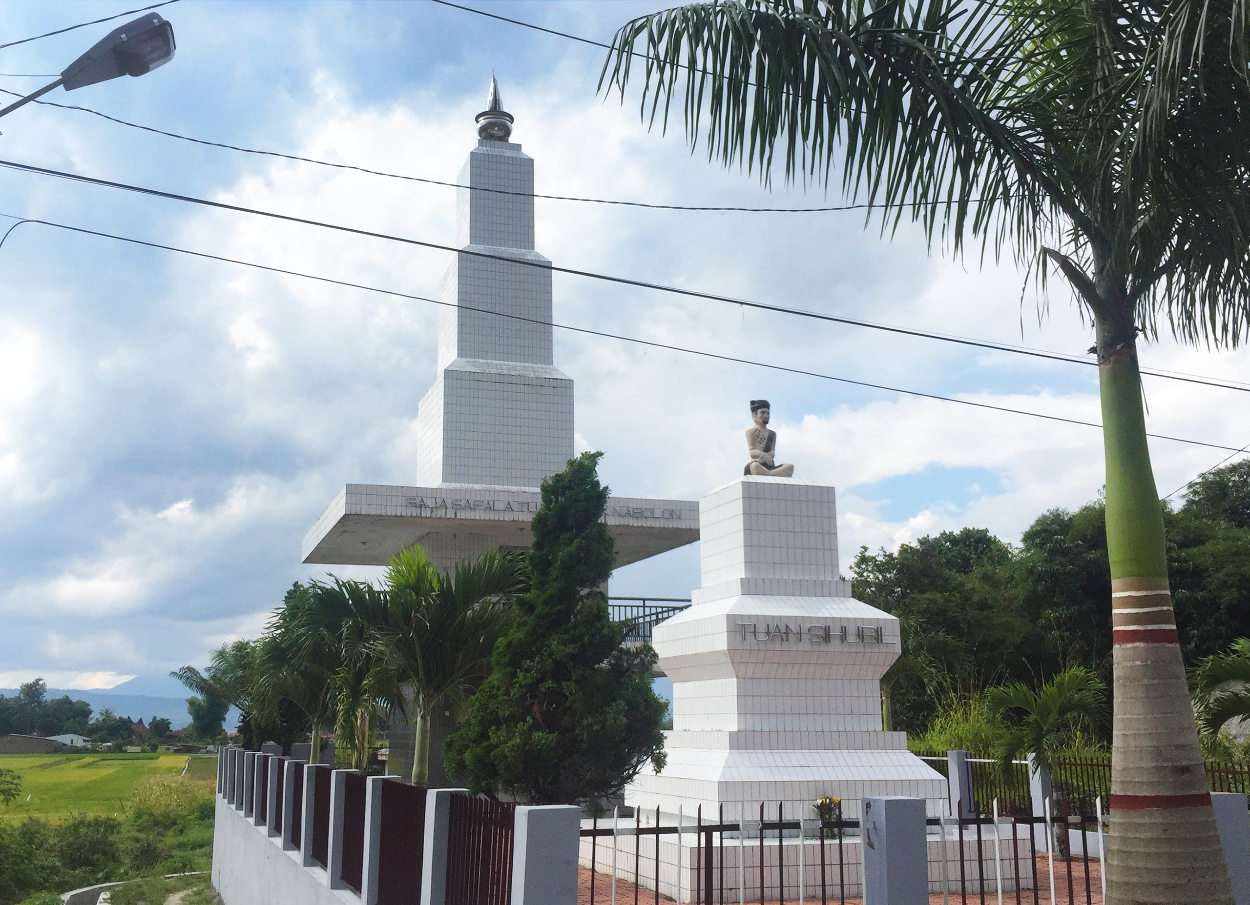 Monument of Tuan Sihubil & Sapala Tua Tampuk Nabolon (Tampubolon) clan in Balige, Toba Samosir